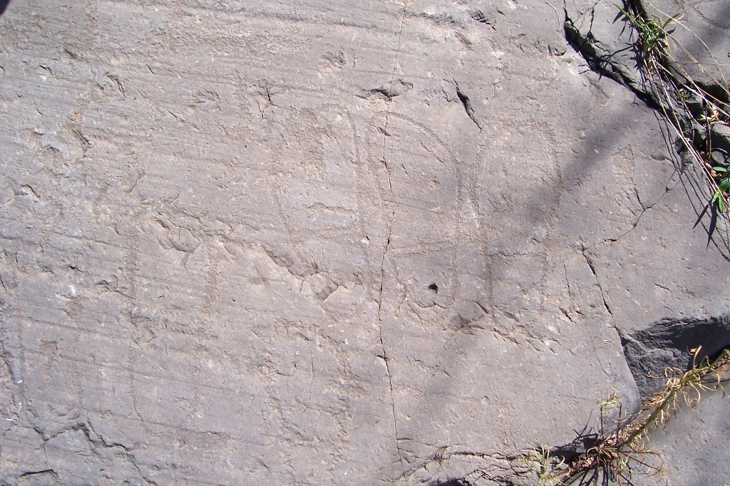 Feet-step. Foppe Area, R. 6, Rock Art Natural Reserve of Ceto, Cimbergo and Paspardo. Nadro, Rock Drawings in Valle Camonica.